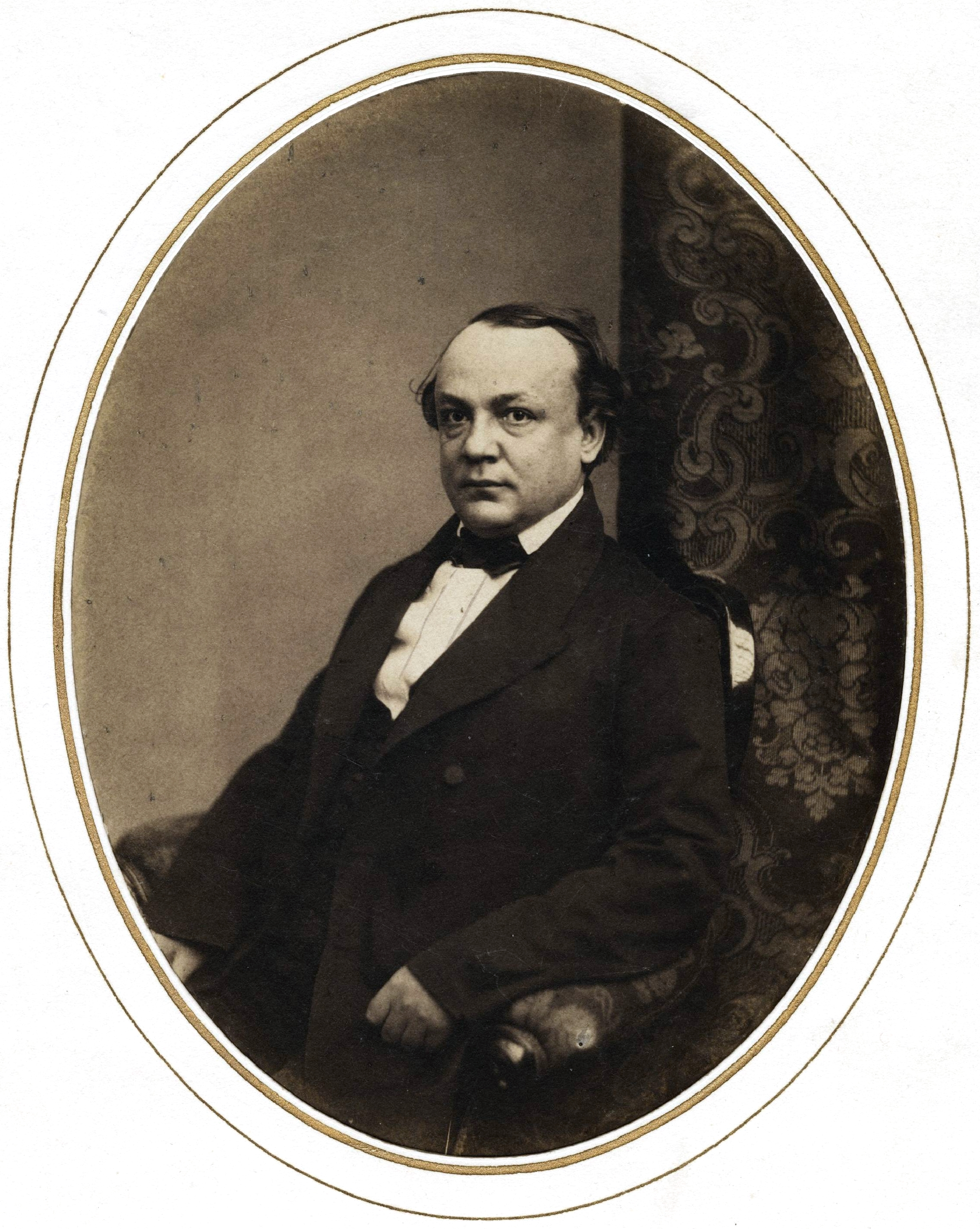 Russian writer Aleksey Feofilaktovich Pisemsky